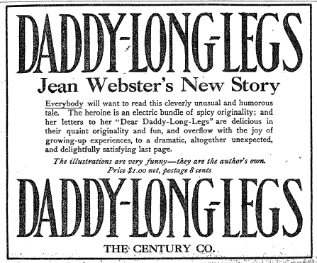 Advertisement of Jean Webster's novel Daddy-Long-Legs